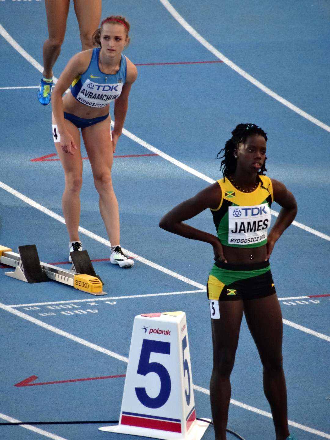 2016 IAAF World U20 Championships in Bydgoszcz, 400m women qualifications